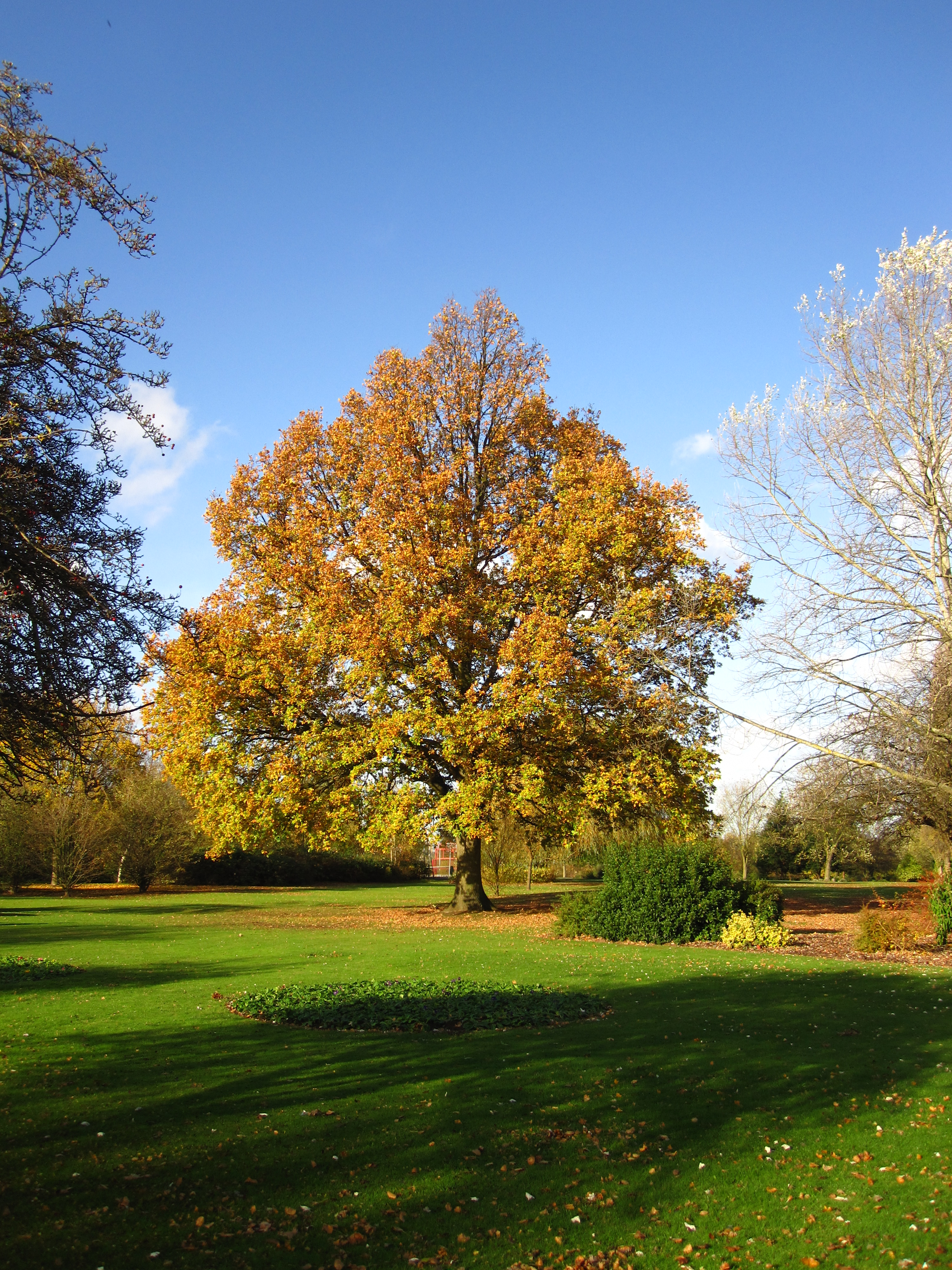 Autumn in Greenford - Ravenor Park (London, UK)